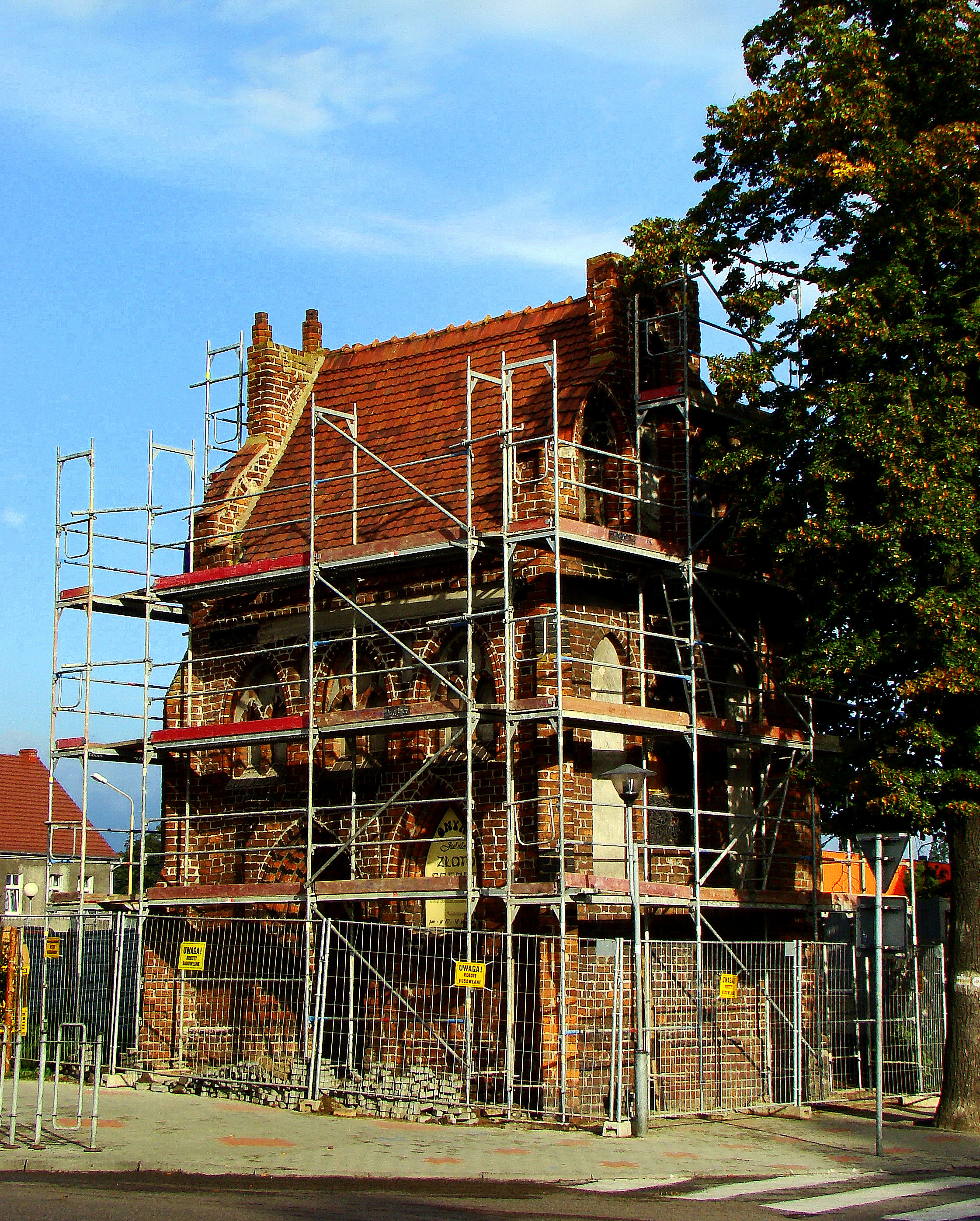 Gothic Chapel (15th century) in Police (West Pomeranian Voivodeship), Poland